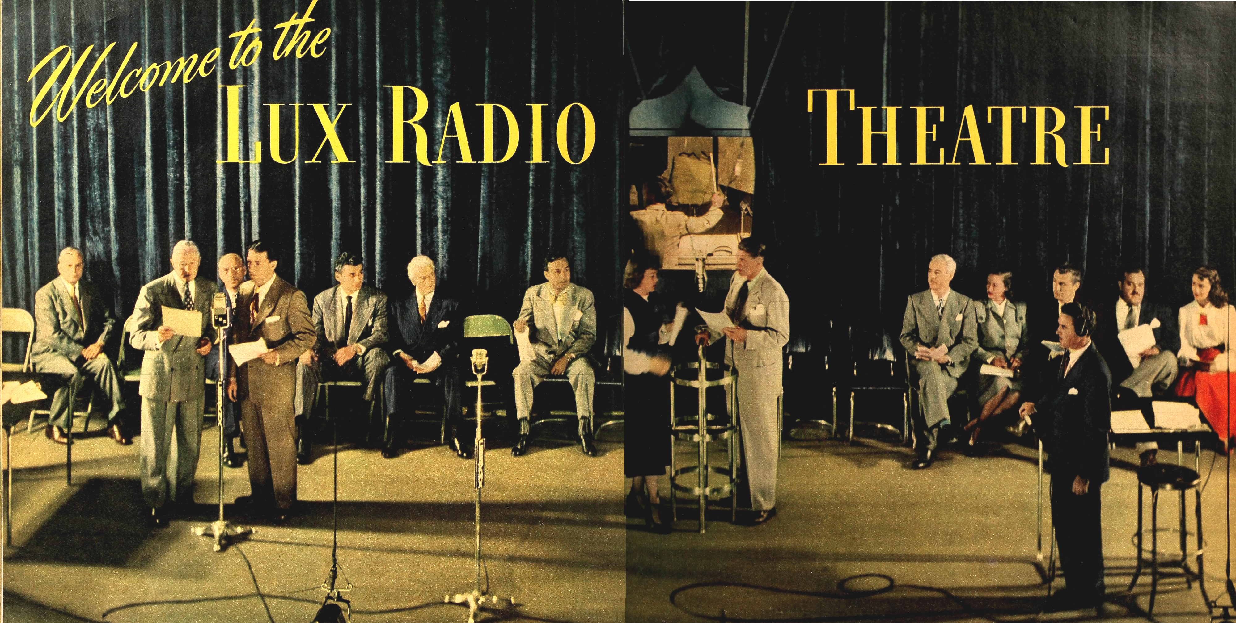 Photo of a performance of Lux Radio Theatre before a studio audience.